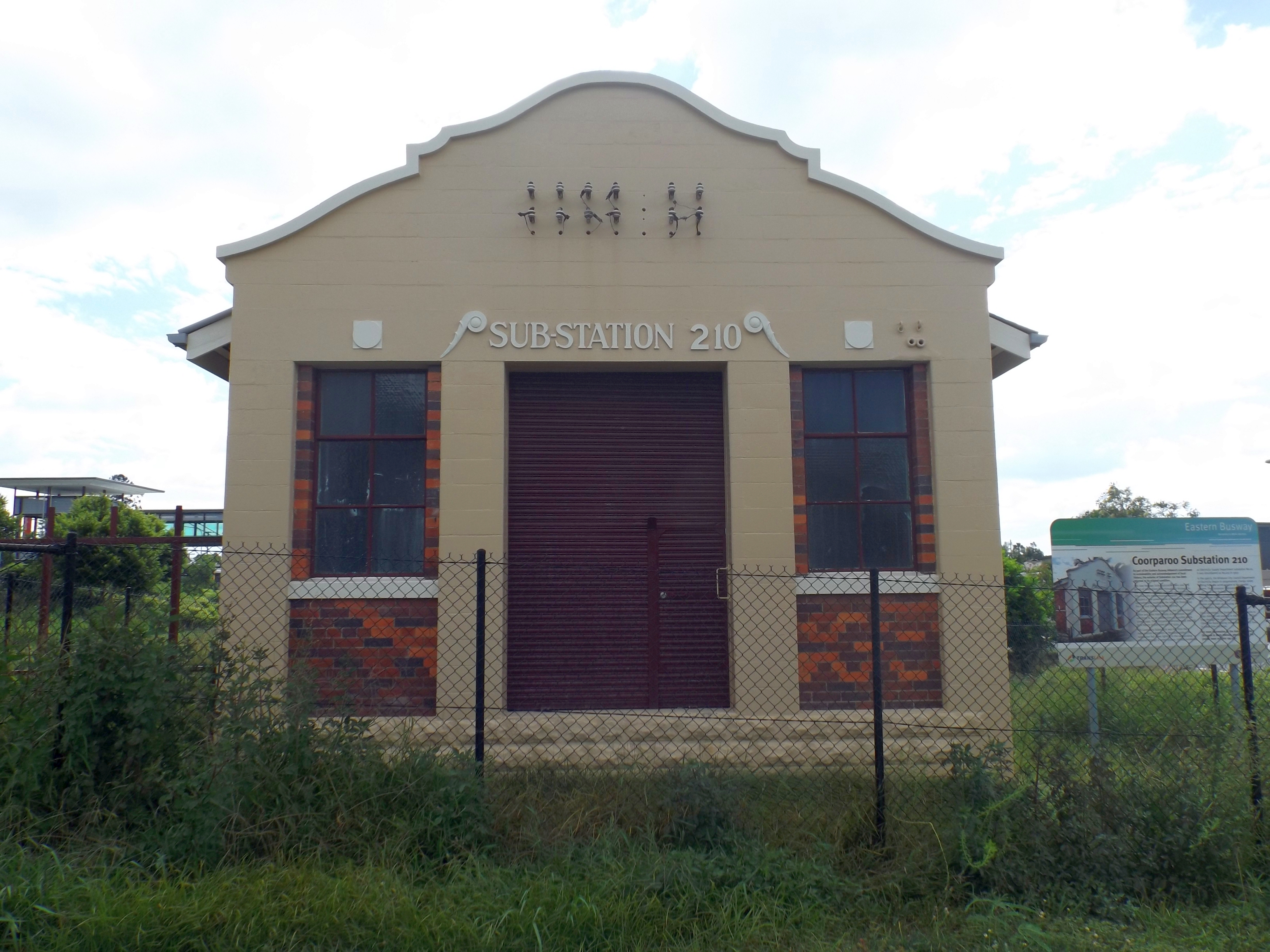 Photo of the front of Coorparoo Substation No. 210 at Coorparoo, Brisbane, Queensland, Australia.